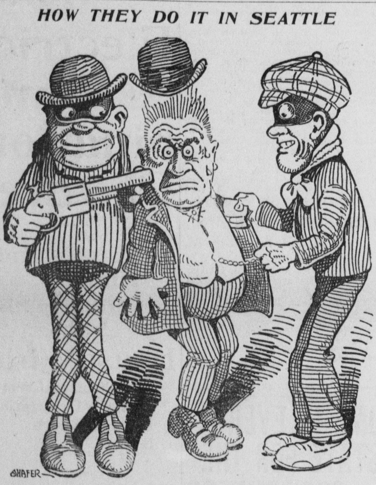 "How they do it in Seattle" - a man is mugged at gunpoint. The connection with Seattle is unclear.